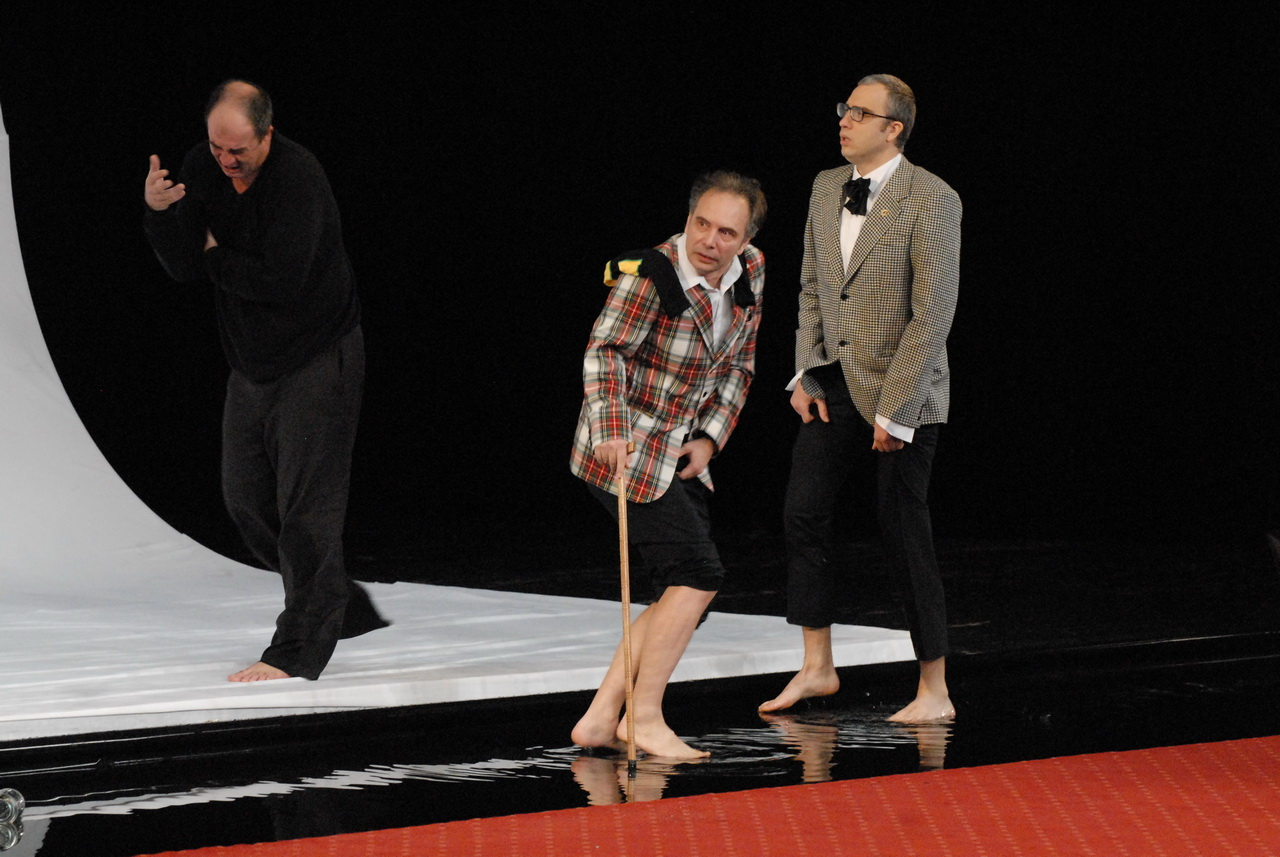 "Timon of Athens" by William Shakespeare, directed by Gorčin Stojanović, Drama of the Serbian National Theatre, Novi Sad, 2010-2011; Boris Isaković, Aleksandar Gajin, Igor Pavlović Srpski (latinica): "Timon Atinjanin" Vilijama Šekspira u režiji Gorčina Stojanovića, Drama Srpskog narodnog pozorišta, Novi Sad, 2010-2011; Boris Isaković, Aleksandar Gajin, Igor Pavlović Српски (ћирилица): "Тимон Атињанин" Вилијама Шекспира у режији Горчина Стојановића, Драма Српског народног позоришта, Нови Сад, 2010-2011; Борис Исаковић, Александар Гајин, Игор Павловић